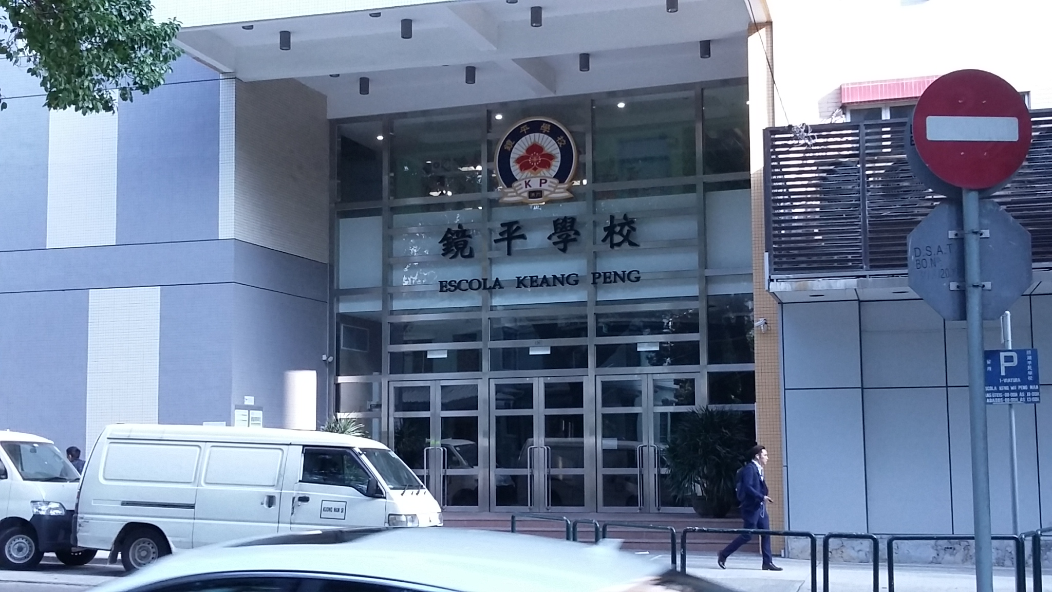 The main entrance of the Keang Peng School (Escola Keang Peng) primary school division in Macau.